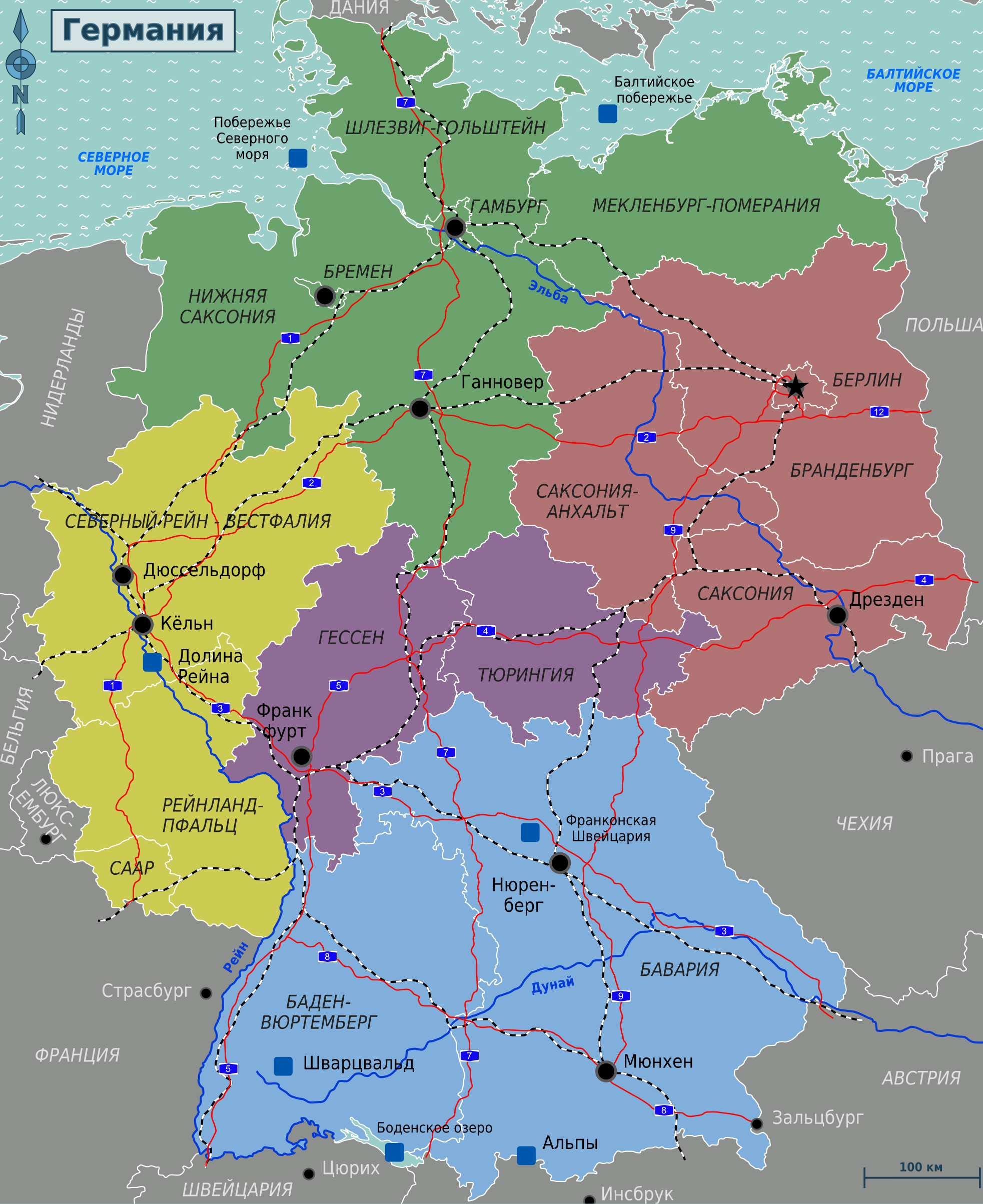 Map of Germany (ru). Map of Germany regions. Russian version Other languages: English, Germany Map of: Germany¤